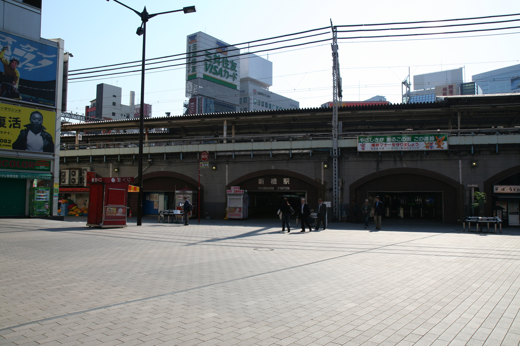 East Japan Railway Shinbashi Station Hibiya exit in Minato, Tokyo.